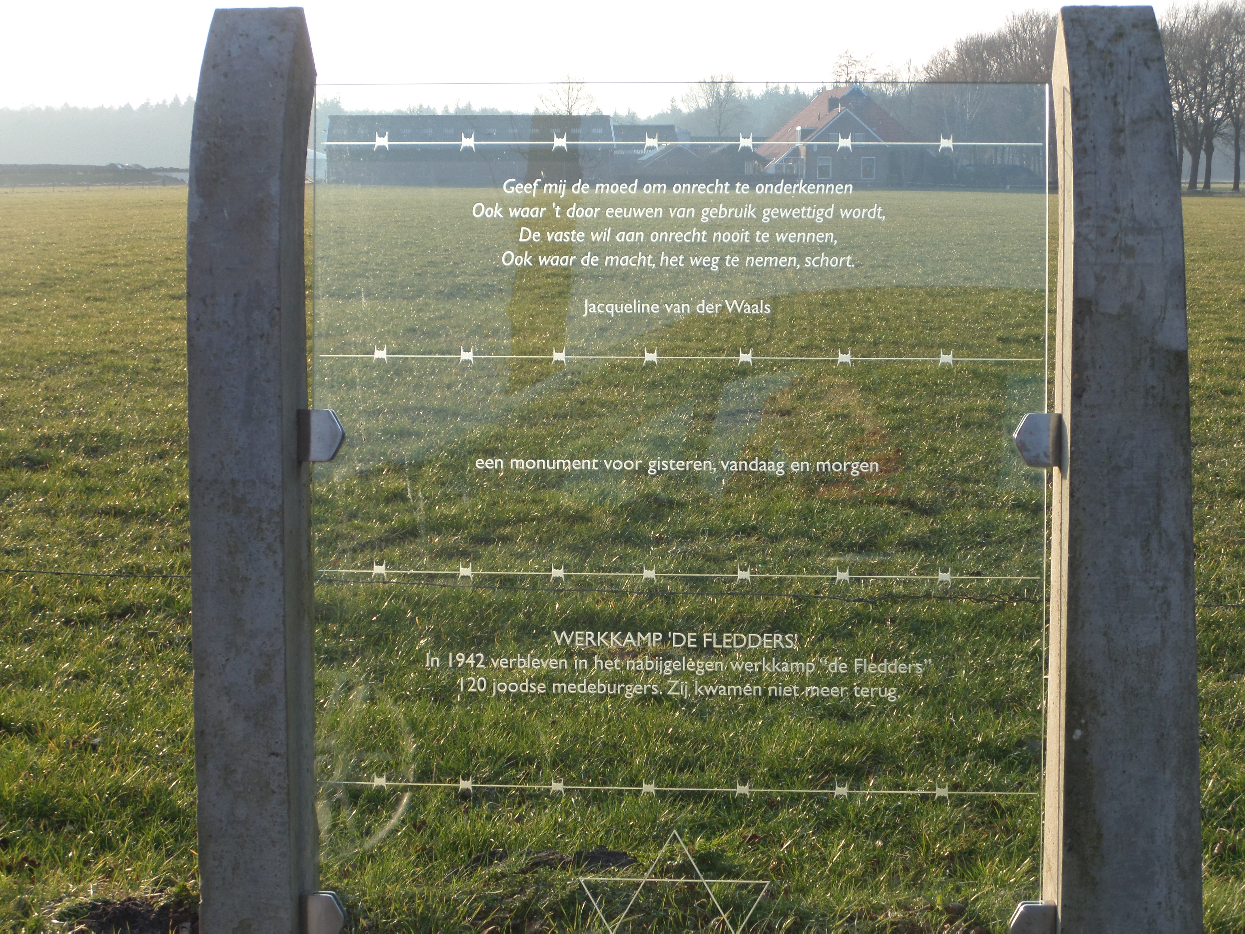 Memorial plaque commemorating the site of camp De Slokkert near Westervelde where several groups of people were housed, mostly against their will. Used between 1933 and 1958.